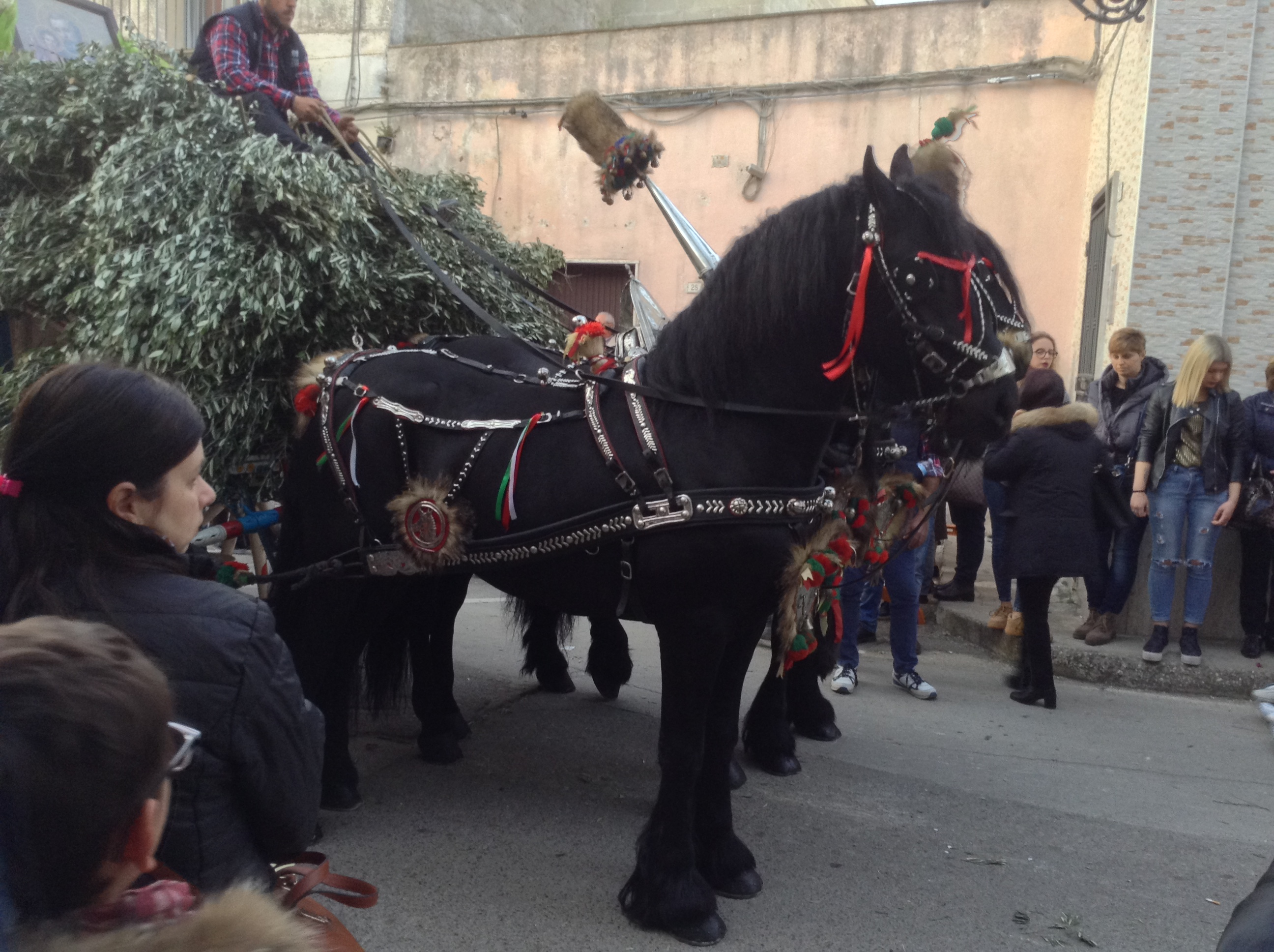 Procession of bundle of wood